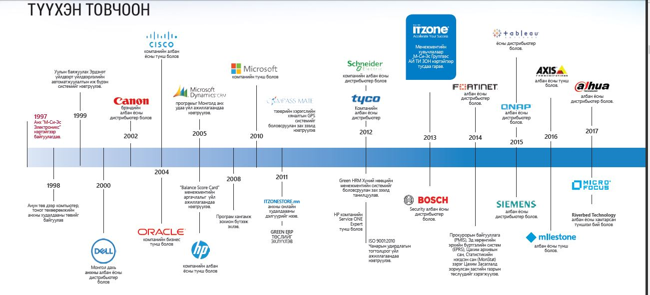 ITZone the Mongolian IT Company